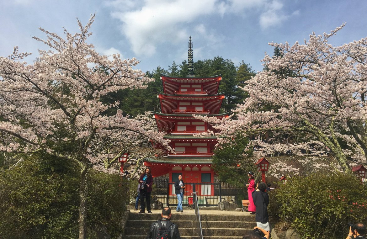 Chūrei-tō pagoda during cherry blossom season in the Arakurayama Sengen Park, Fujiyoshida, Yamanashi, central Japan.